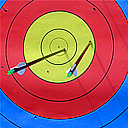 Archery icon for user boxes or clip art. Two arrows in an archery target.